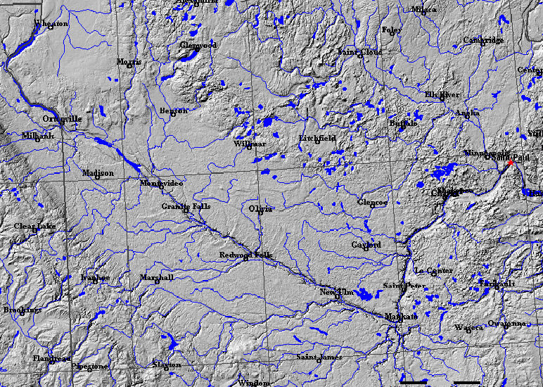 Relief, watercourses and lakes of Minnesota